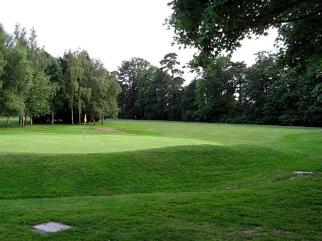 Effingham Park Golf Course. The hole shown appeared to have few hazards